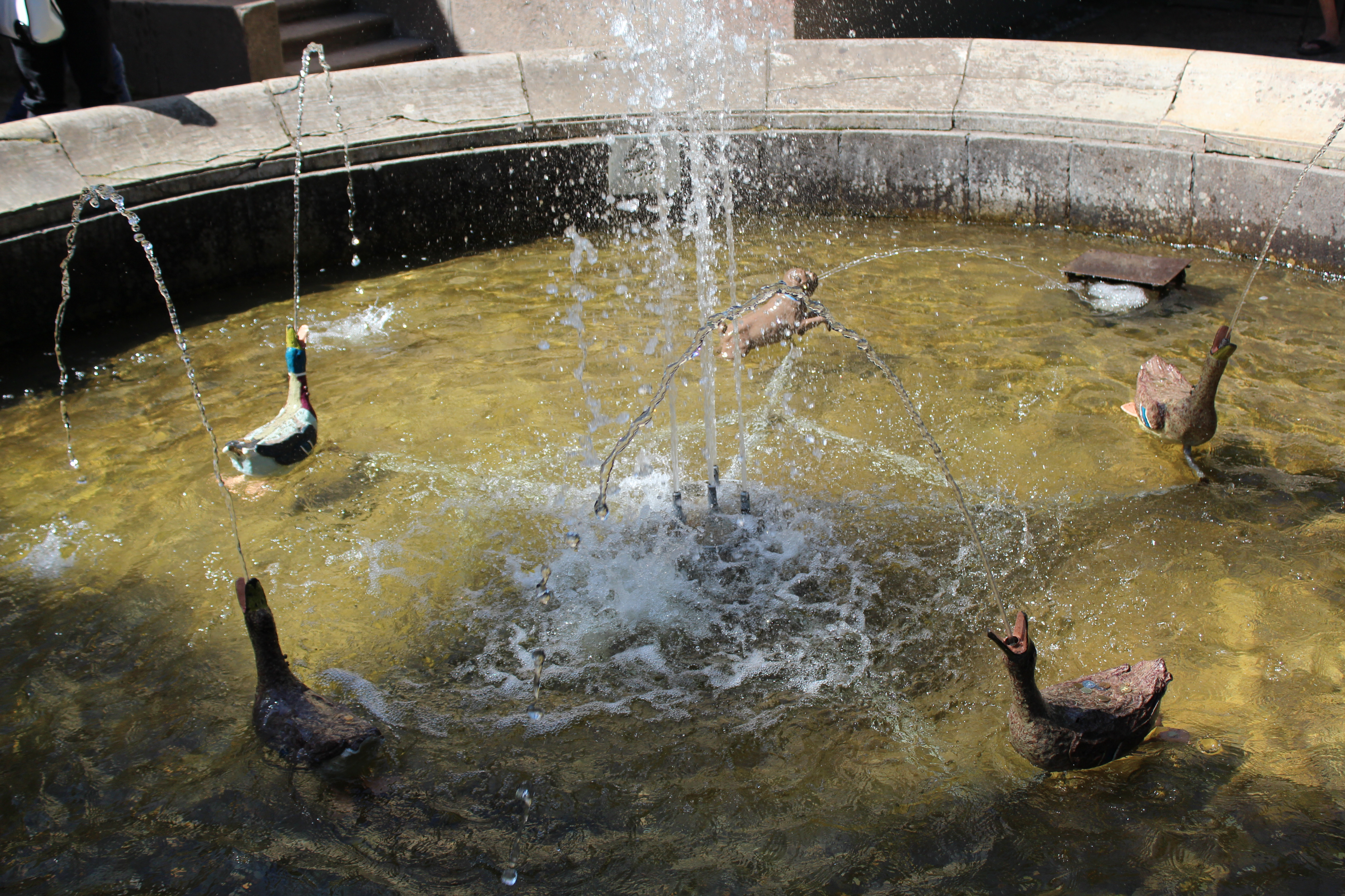 Peterhof, (Russian: Петергоф, Petergof, originally Piterhof